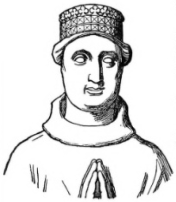 Drawing of John Holland's tomb effigy, depicted in Doyle's Baronage